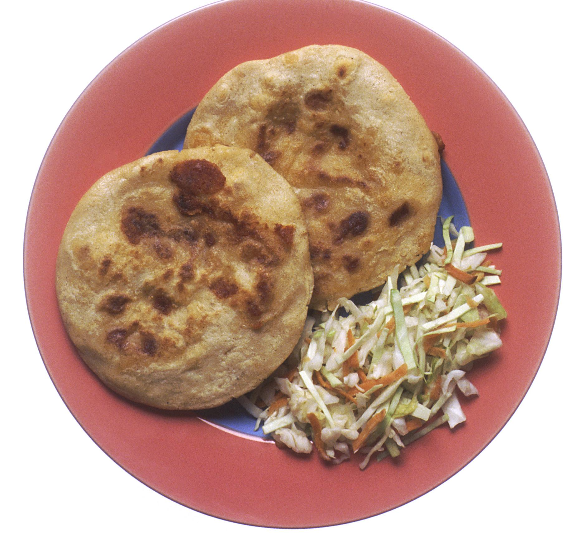 two pupusas on a plate served with a side of coleslaw-like salad